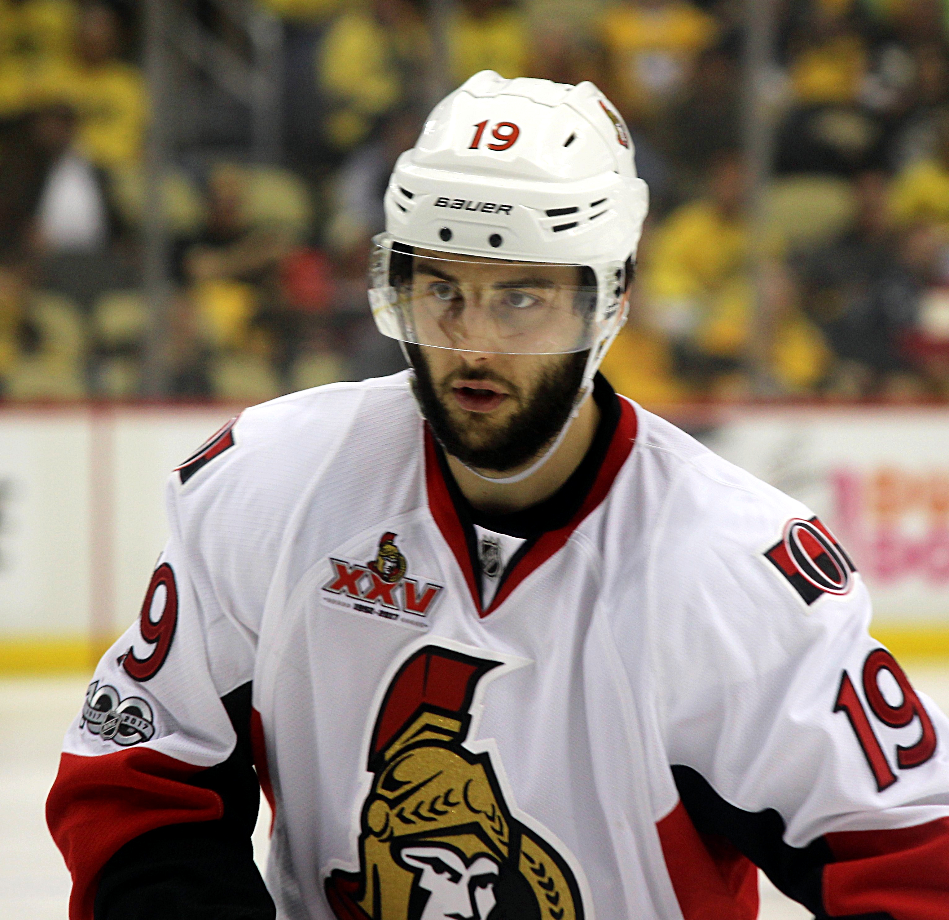 Ottawa Senators forward Derick Brassard during a playoff game against the Pittsburgh Penguins, May 13, 2017, at PPG Paints Arena in Pittsburgh, PA.